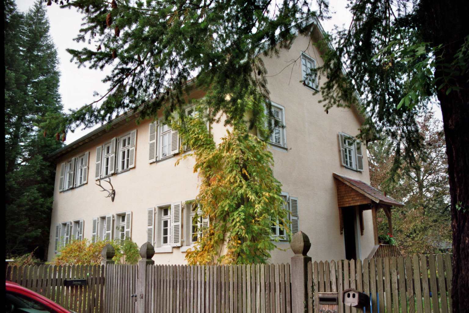 Bessunger Forsthaus in Darmstadt.